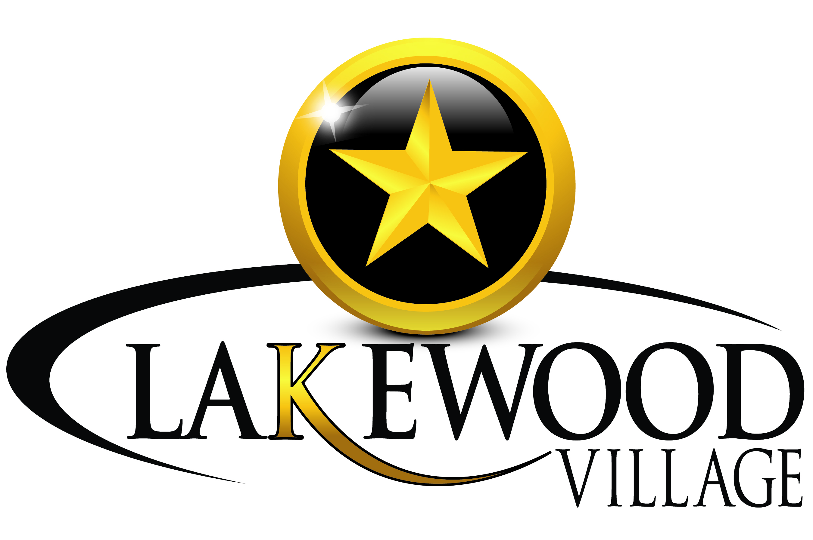 Official Logo of the Town of Lakewood Village